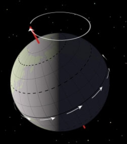 Precession of rotational axis relative to the direction to the Sun at perihelion and aphelion. This changes the time of the year at which perihelion and aphelion occur.